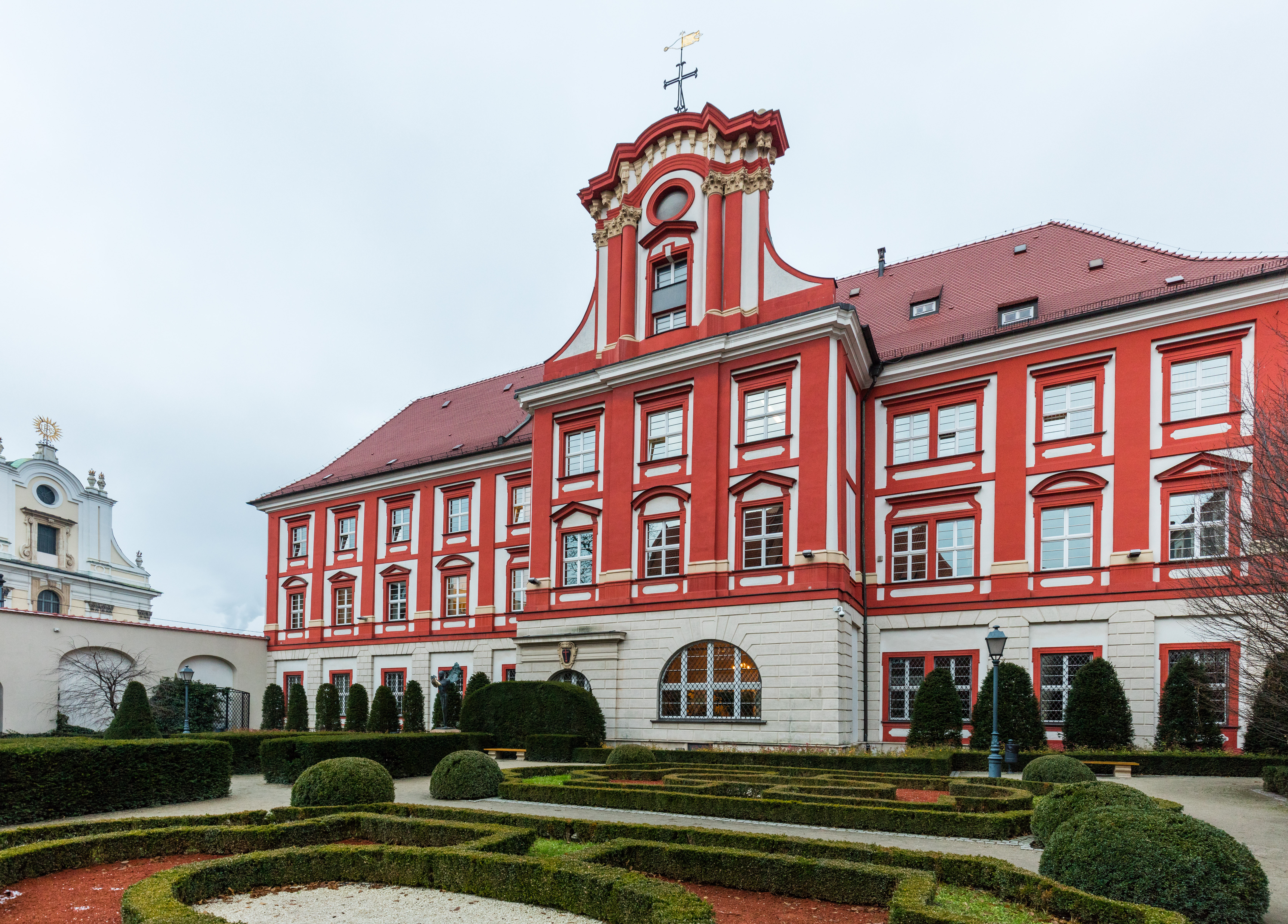 Building of the Ossolineum, Wrocław, Poland